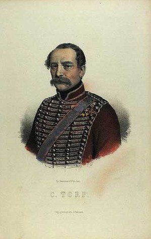 Carl Torp (1798-1869), Danish major general